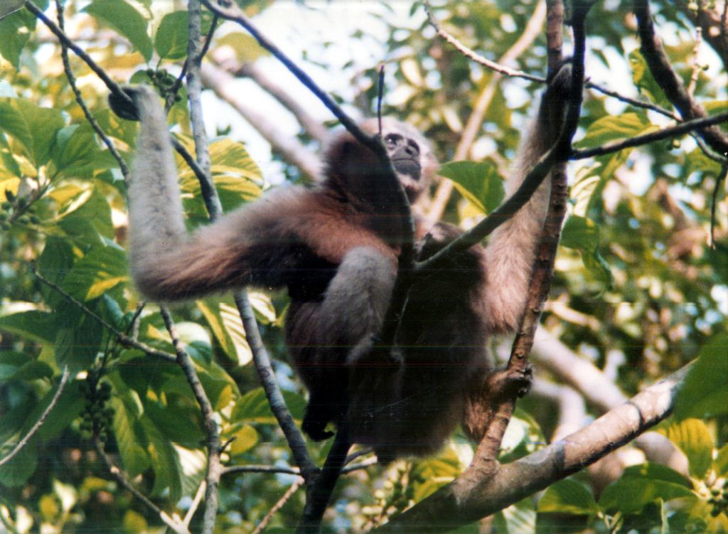 Ulluk, or Hoolock gibbon, from Shrimangal, Sylhet, Bangladesh.